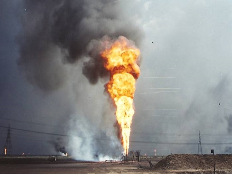 Close up view of Kuwaiti Oil fire